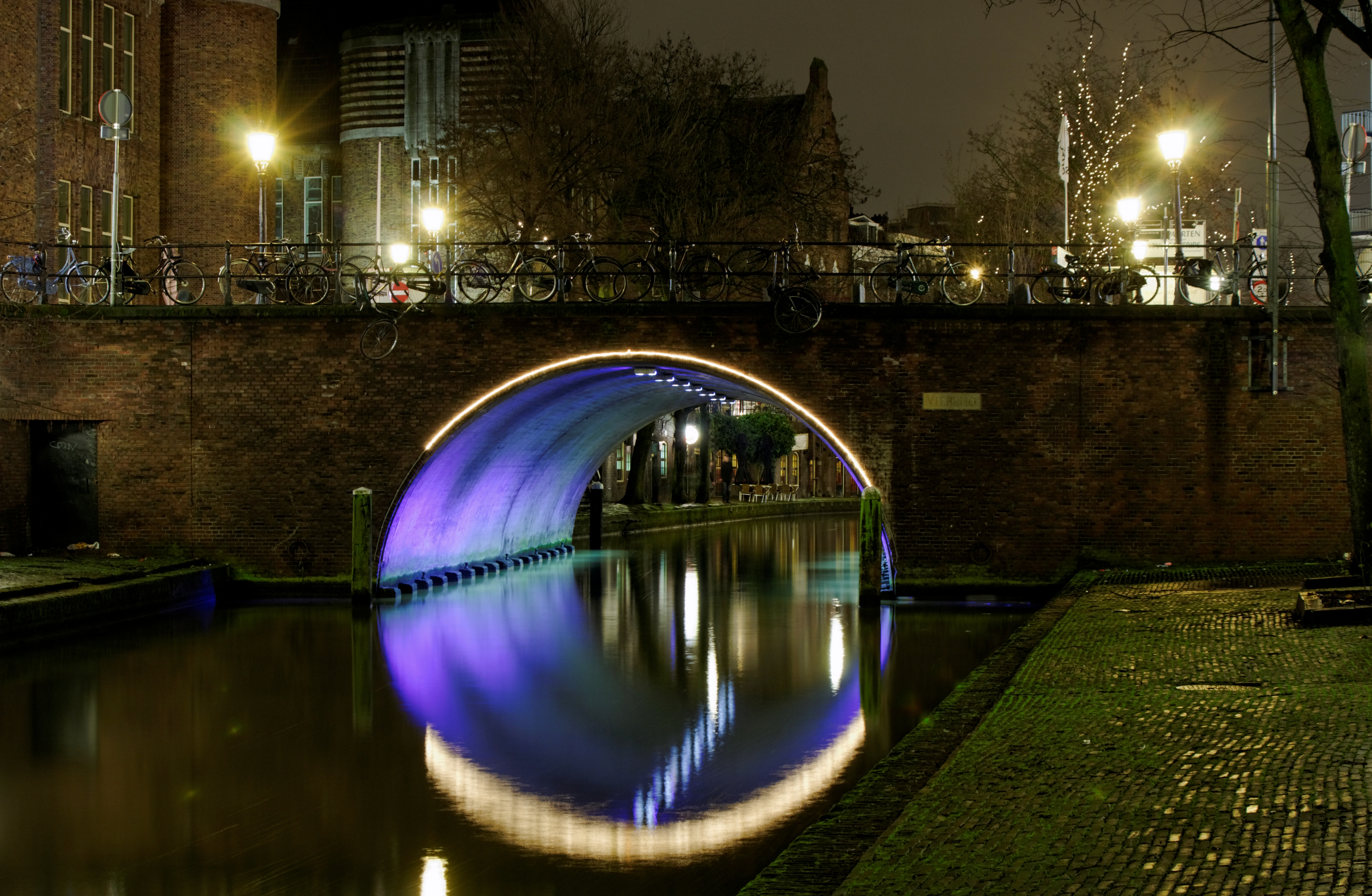 Viebrug Rijksmonument 47073 ZUID Viebrug Rijksmonument 47073 SOUTH